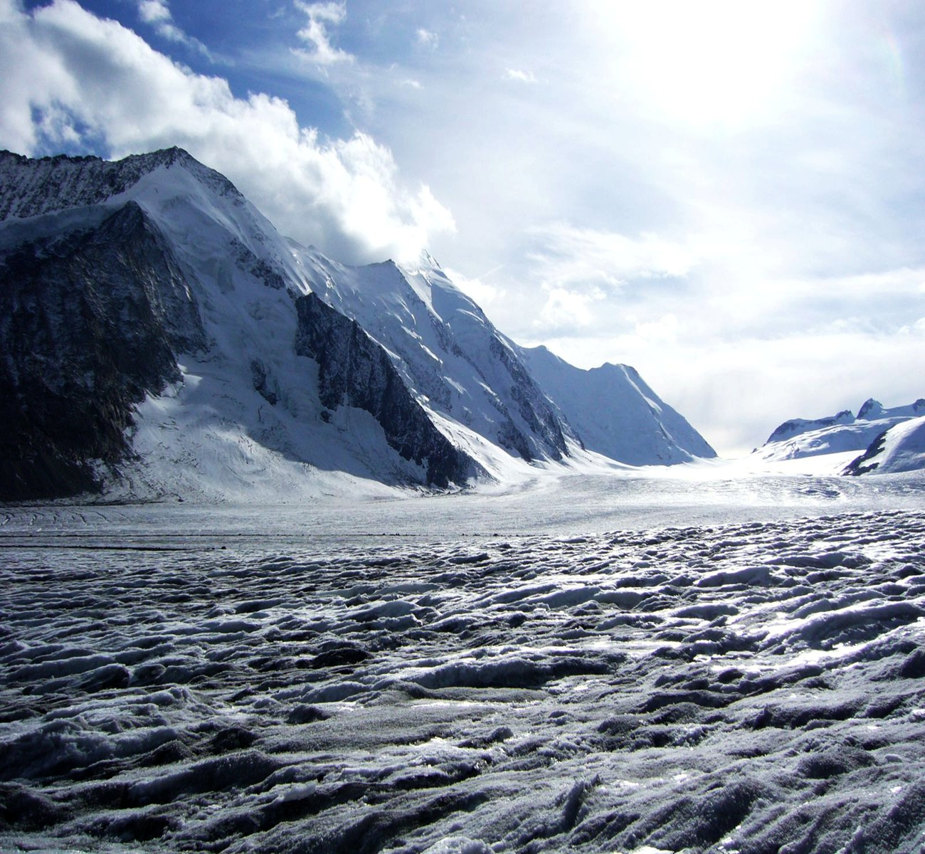 Konkordiaplatz, Bernese Alps